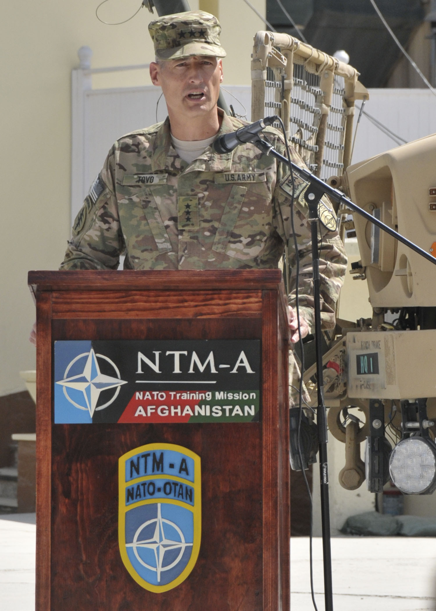 U.S. Army Lt. Gen. Kenneth E. Tovo, the commander of NATO Training Mission-Afghanistan (NTM-A) and Combined Security Transition Command-Afghanistan (CSTC-A), speaks during a change of command ceremony at Camp Eggers, Afghanistan, April 2, 2013. Tovo took command of NTM-A and CSTC-A from Lt. Gen. Daniel P. Bolger.